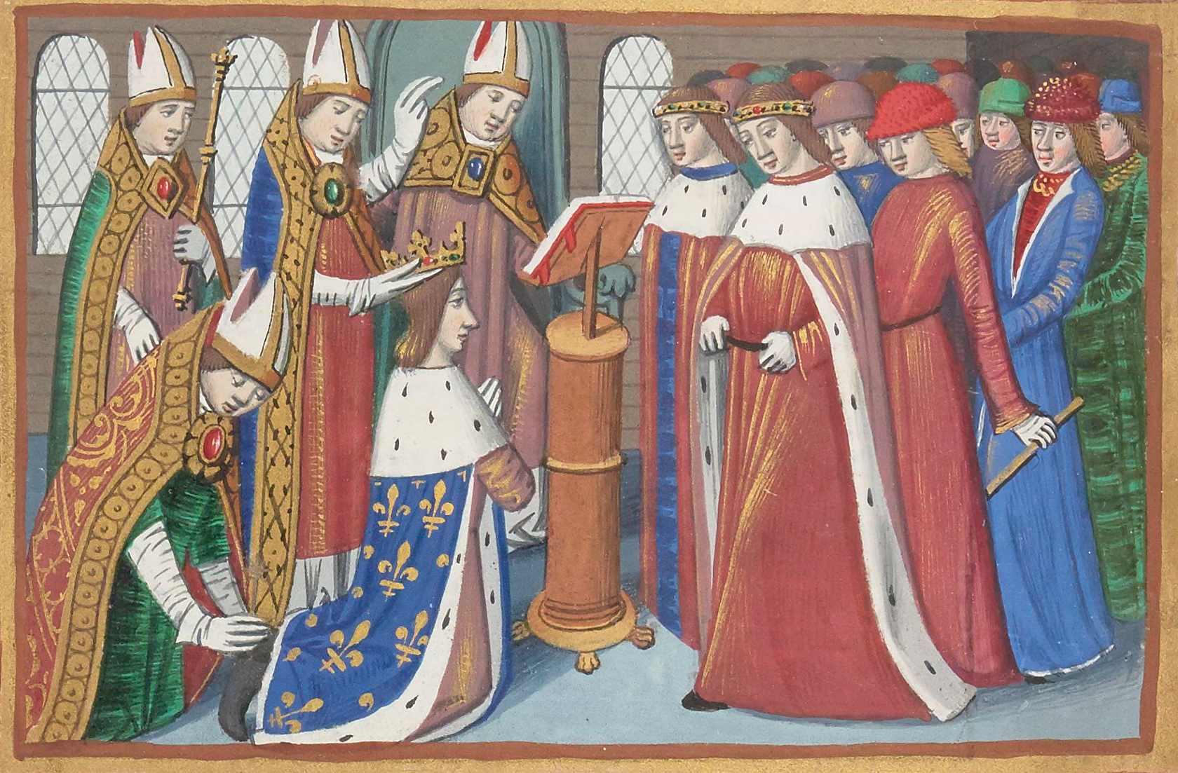 Sacre of Charles VII of France.